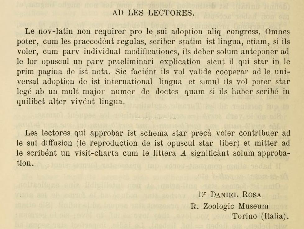 Fragment of D. Rosa's original short booklet on constructed language Nov Latin, 1890.